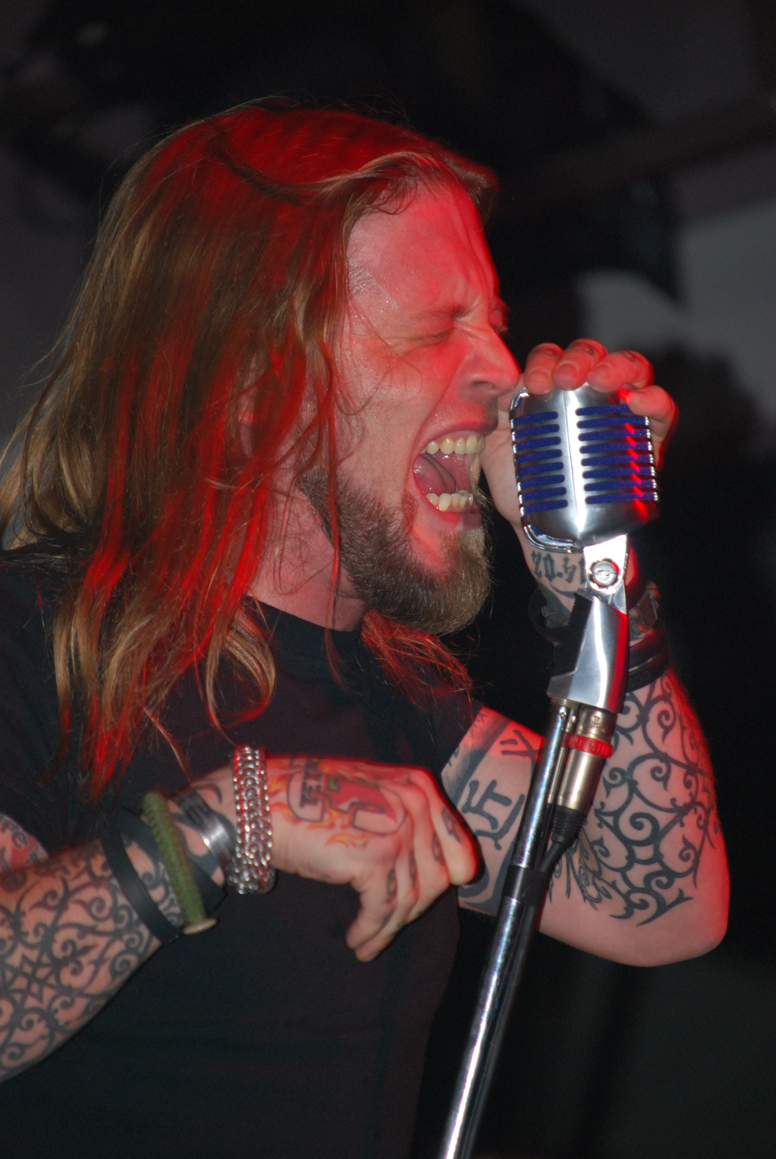 Ryan McCombs, lead singer of Drowning Pool, singing during the band's concert at Fort Wainwright, Alaska on November 6, 2010